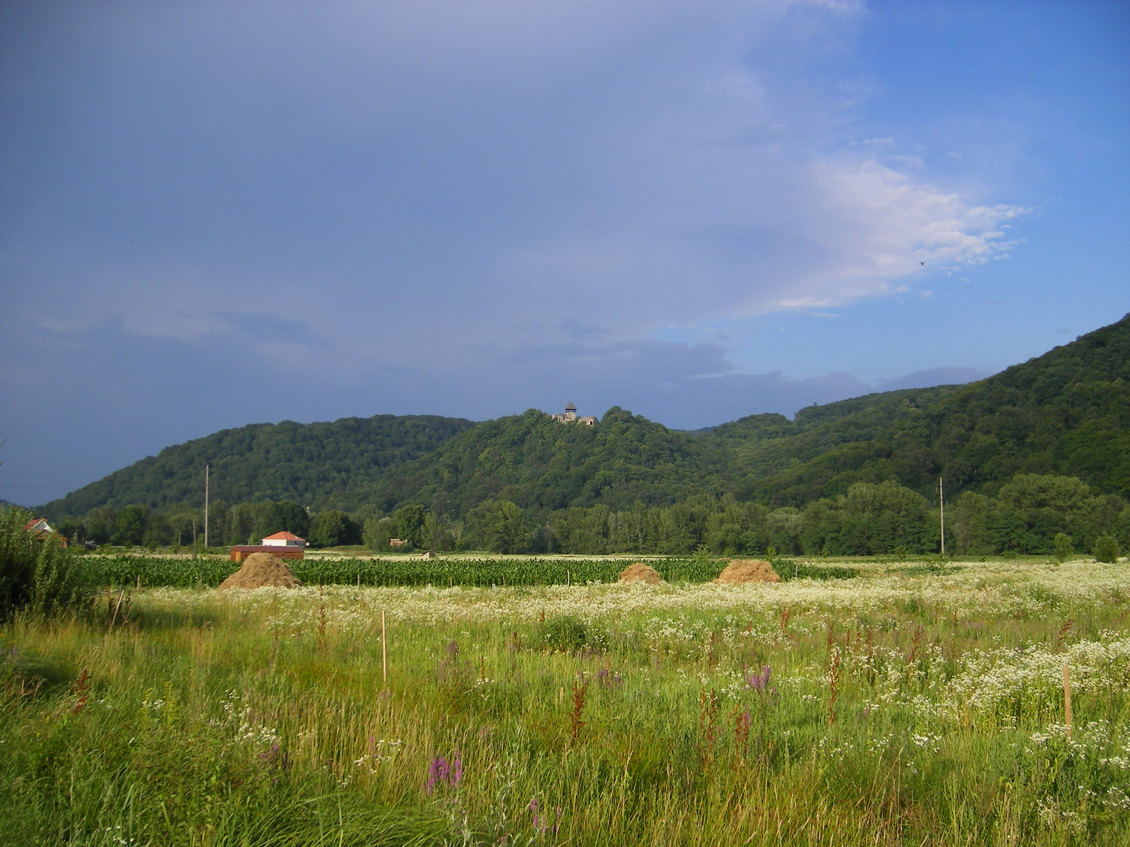 Nevitske castle, Uzhhorod Raion